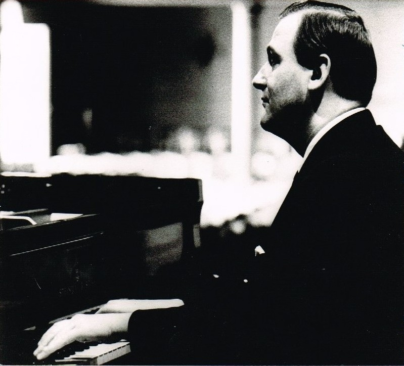 Photo of Jörg Demus for 1972 Southern Africa tour